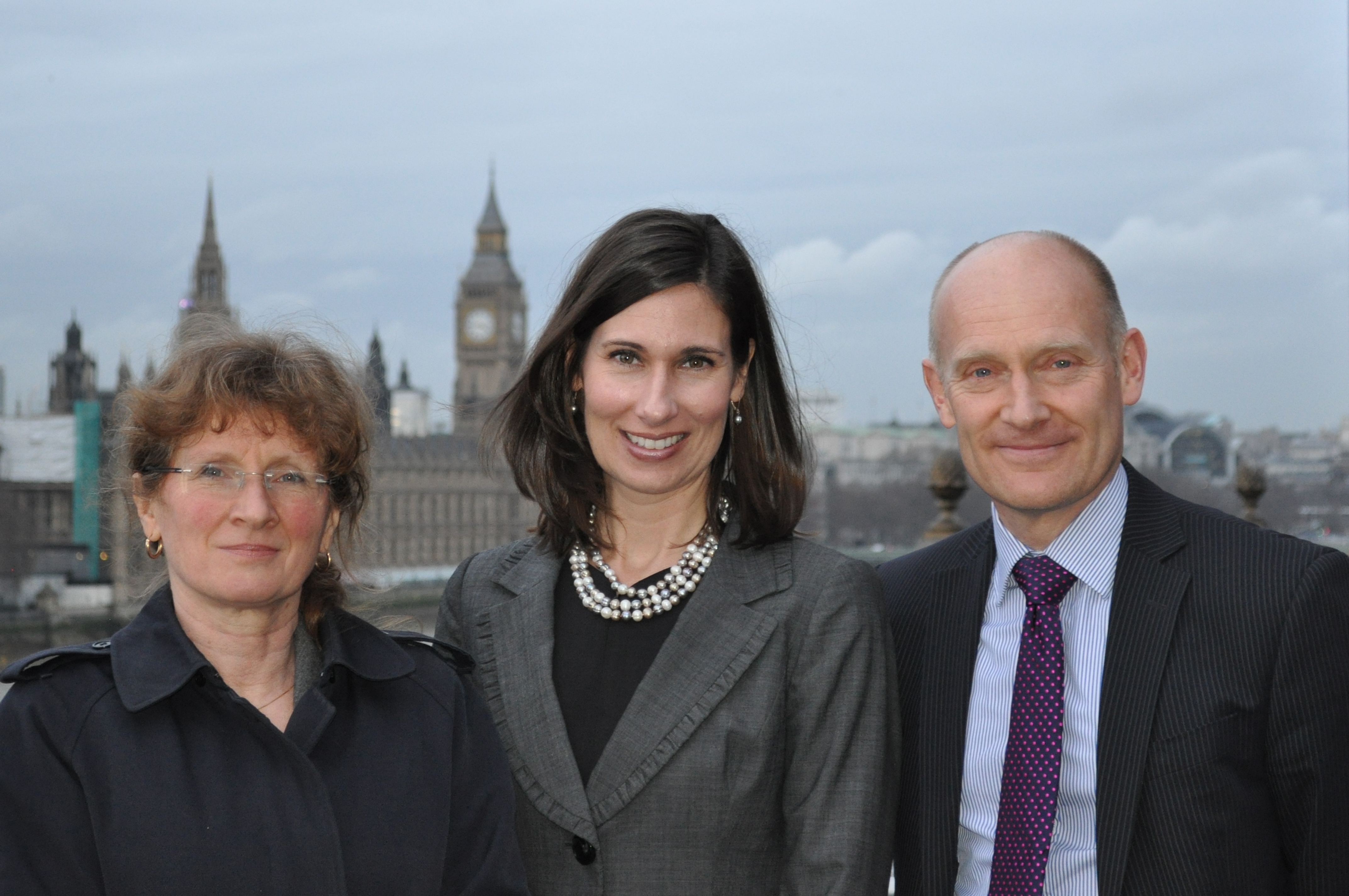 The then U.S. National Transportation Safety Board Chairman Deborah Hersman met with colleagues from the United Kingdom's transportation safety agencies during a 2014 visit to London. Pictured in front of the Houses of Parliament with Hersman are Keith Conradi, then Chief of the (British) Air Accidents Investigation Branch and Carolyn Griffiths, then Chief of the (British) Rail Accident Investigation Branch.